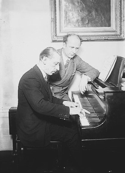 Igor Stravinsky, Russian composer, with Wilhelm Furtwängler, German conductor and composer.